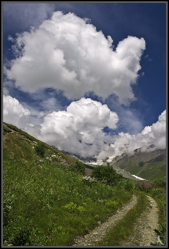 Shovi, Racha region, Georgia